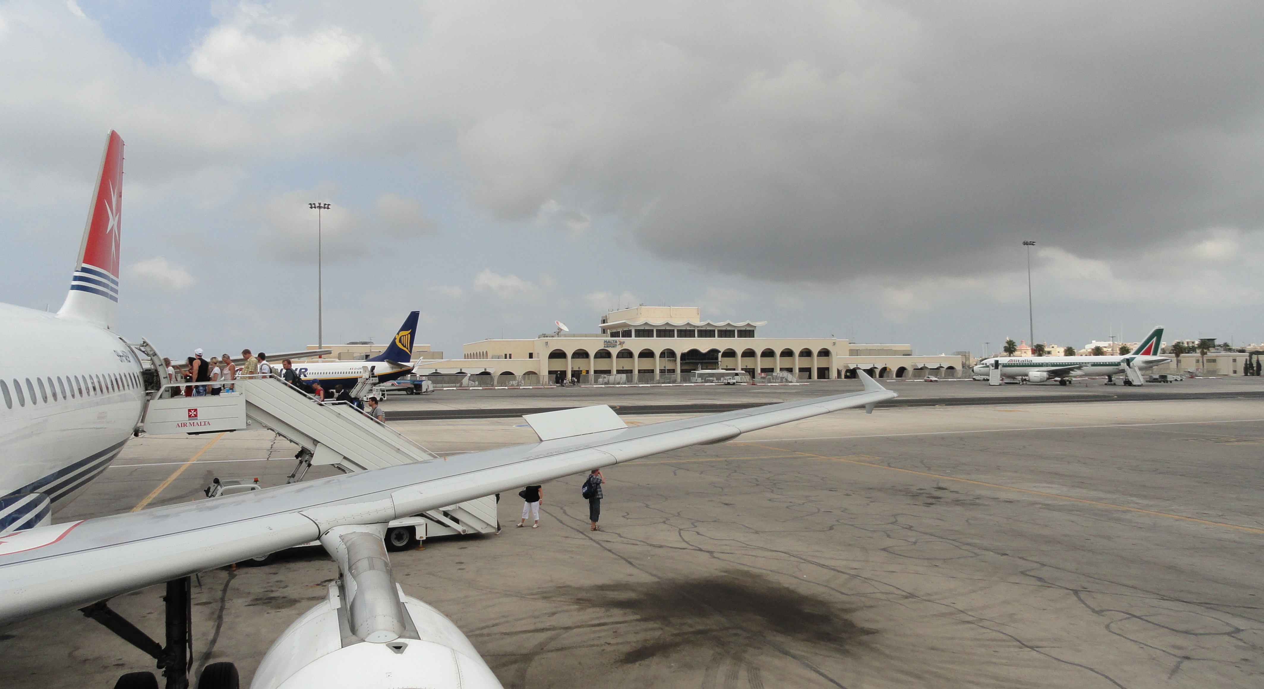 Malta International Airport, Malta.